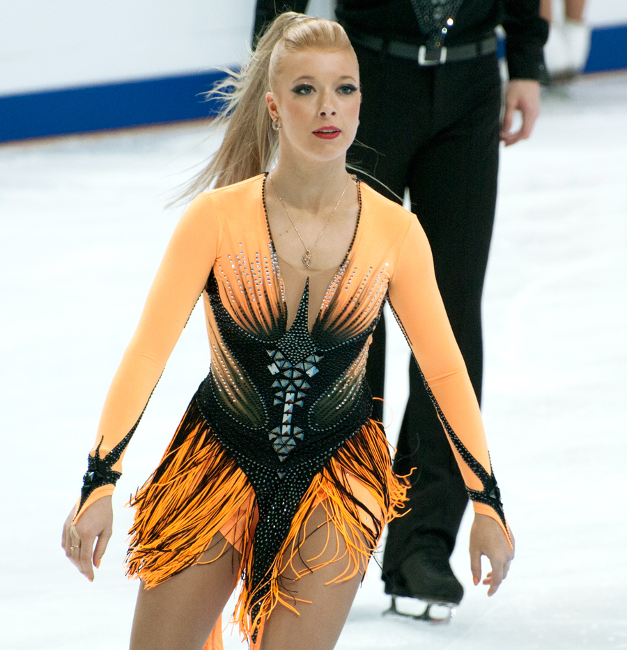 2011 Cup of Russia, short program warmup.